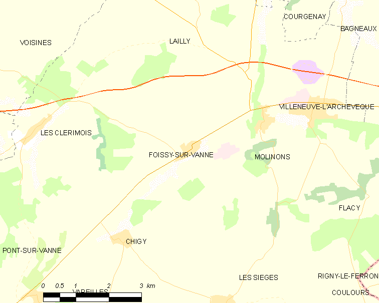 Map of French municipality Foissy-sur-Vanne